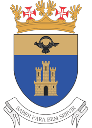 Portuguese Air Force Base Nº 1 (Sintra) coat of arms, Motto "Learn to serve well"